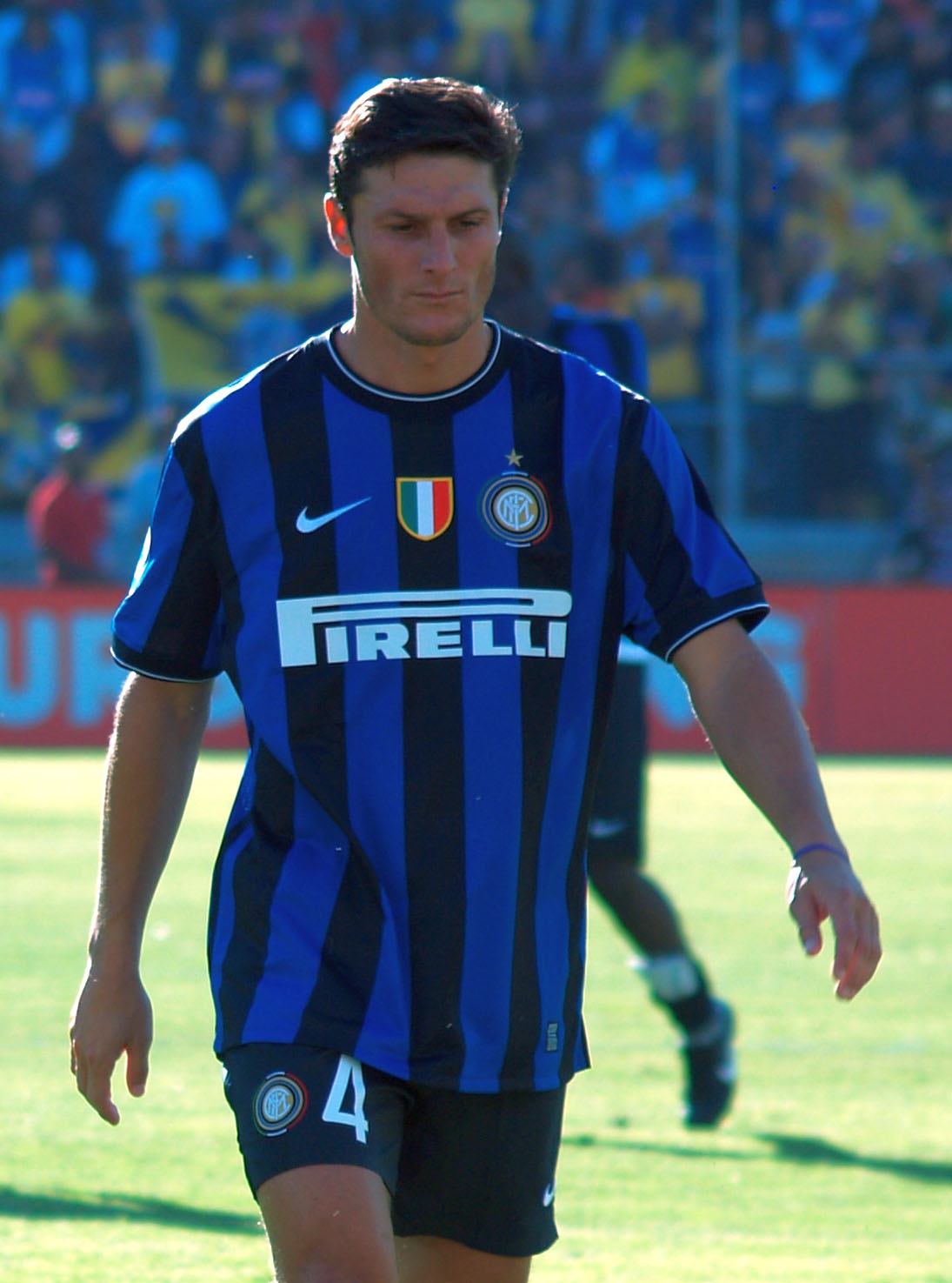 Club América v Internazionale, 21 July 2009, Nerazzurri's captain Javier Zanetti.